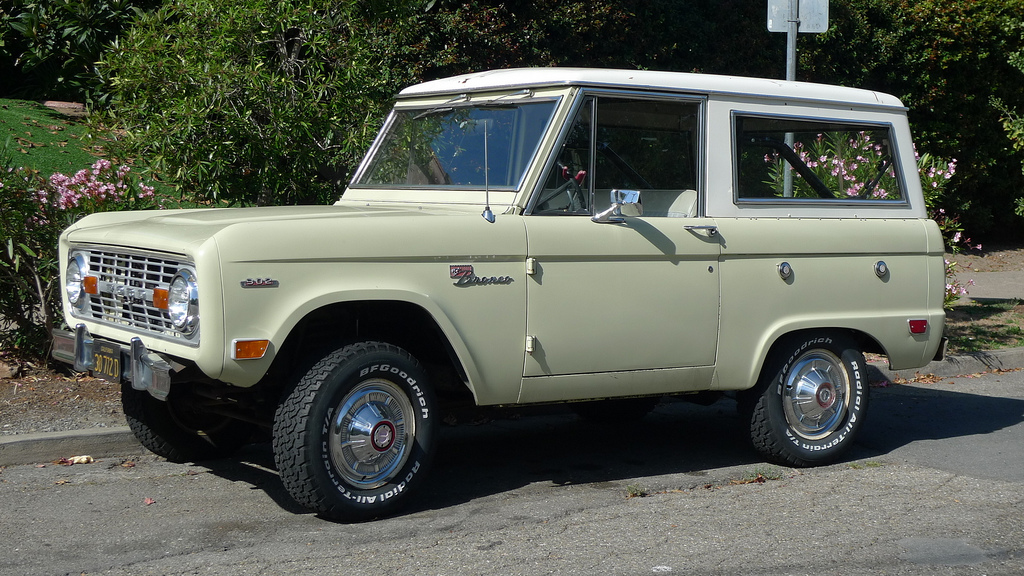 Maybe it's because I watched Speed one to many times, but I still love the first generation Ford Bronco.